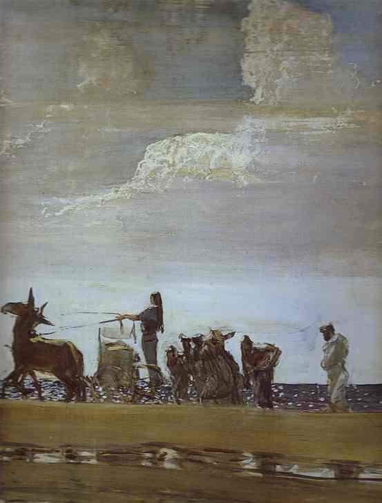 Odysseus and Nausicaa